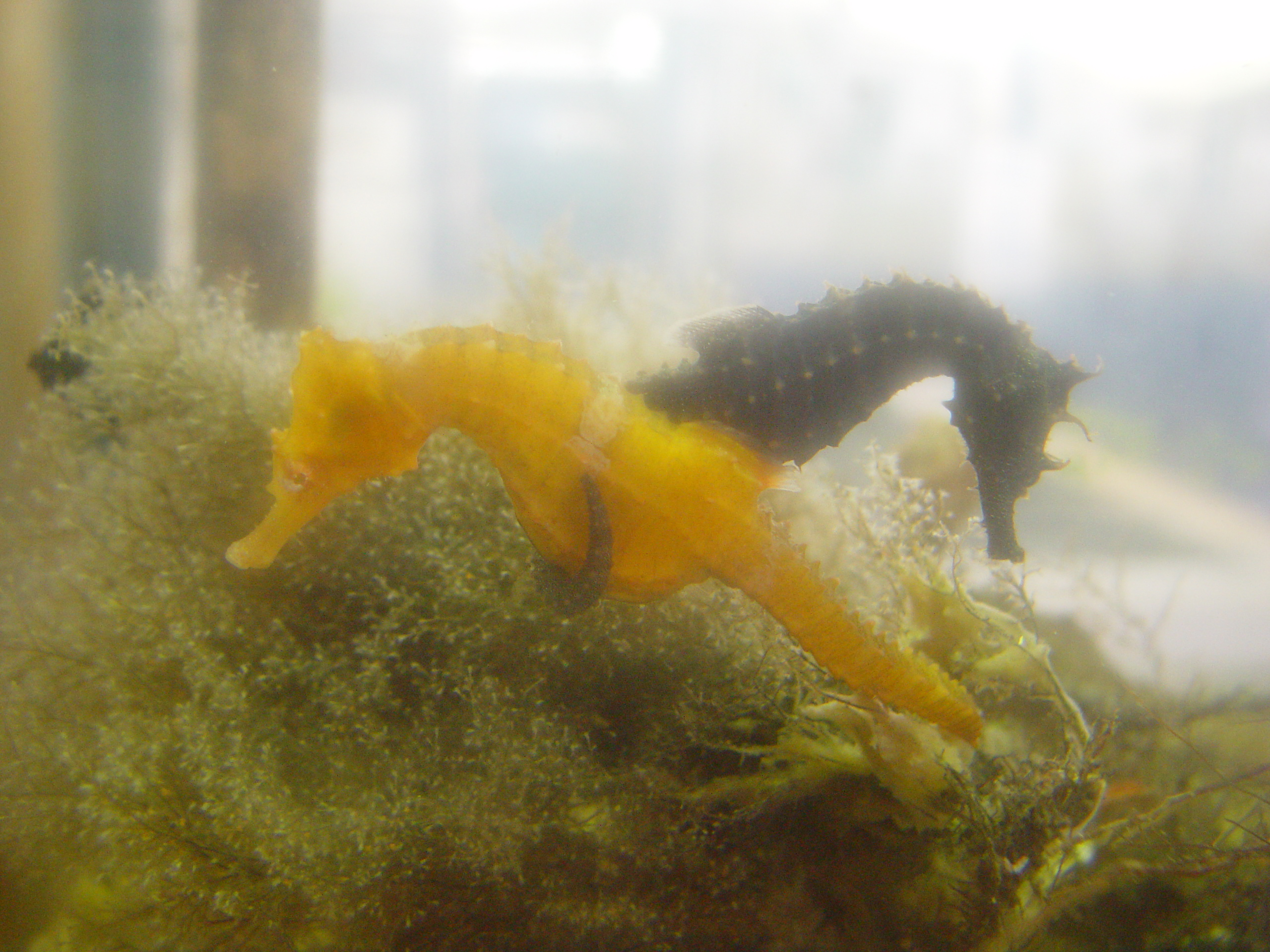 Every morning, seahorse couples do a mating dance in order to reinforce their permanent bond. They will mate for life.